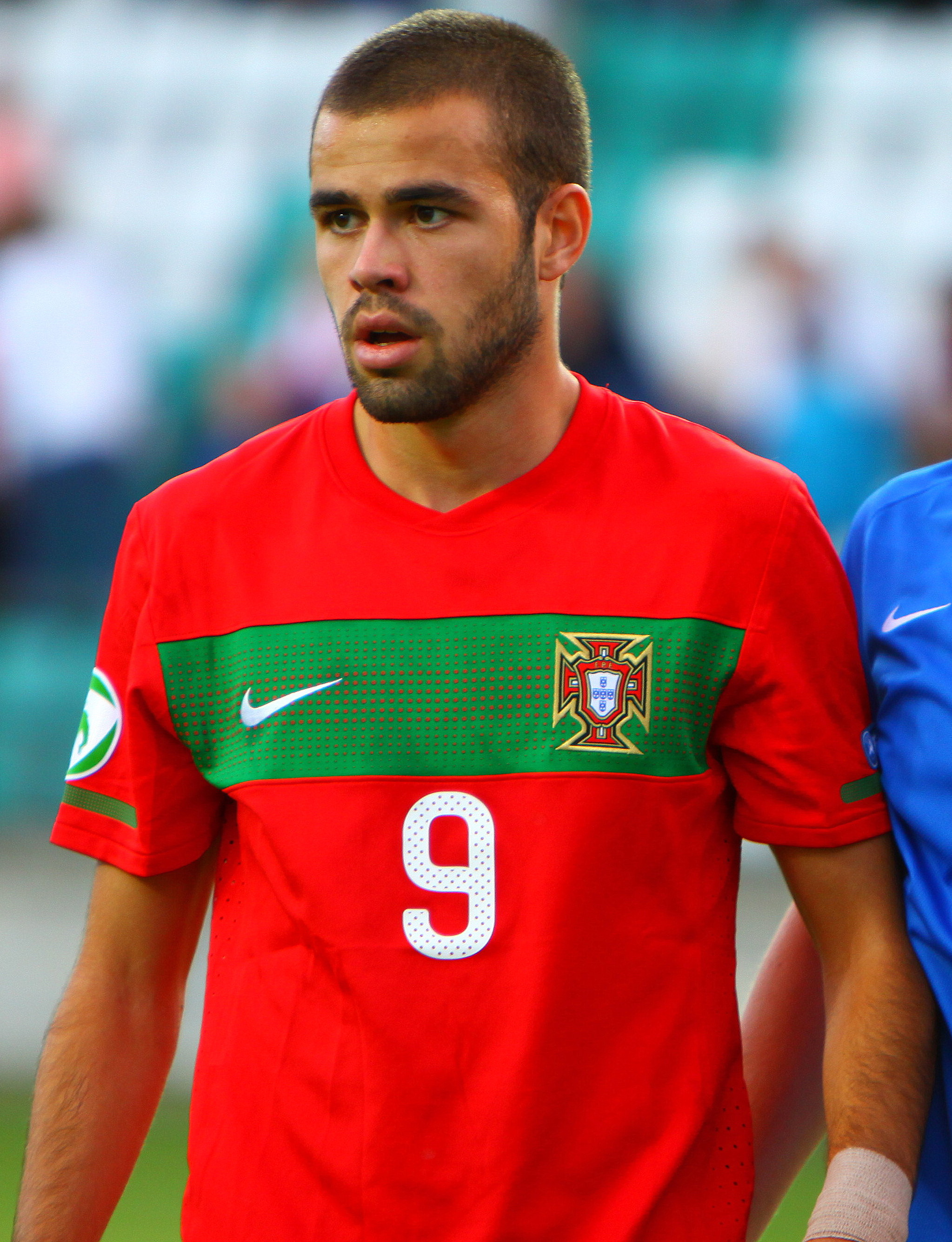 Betinho and Kevin Ingermann.